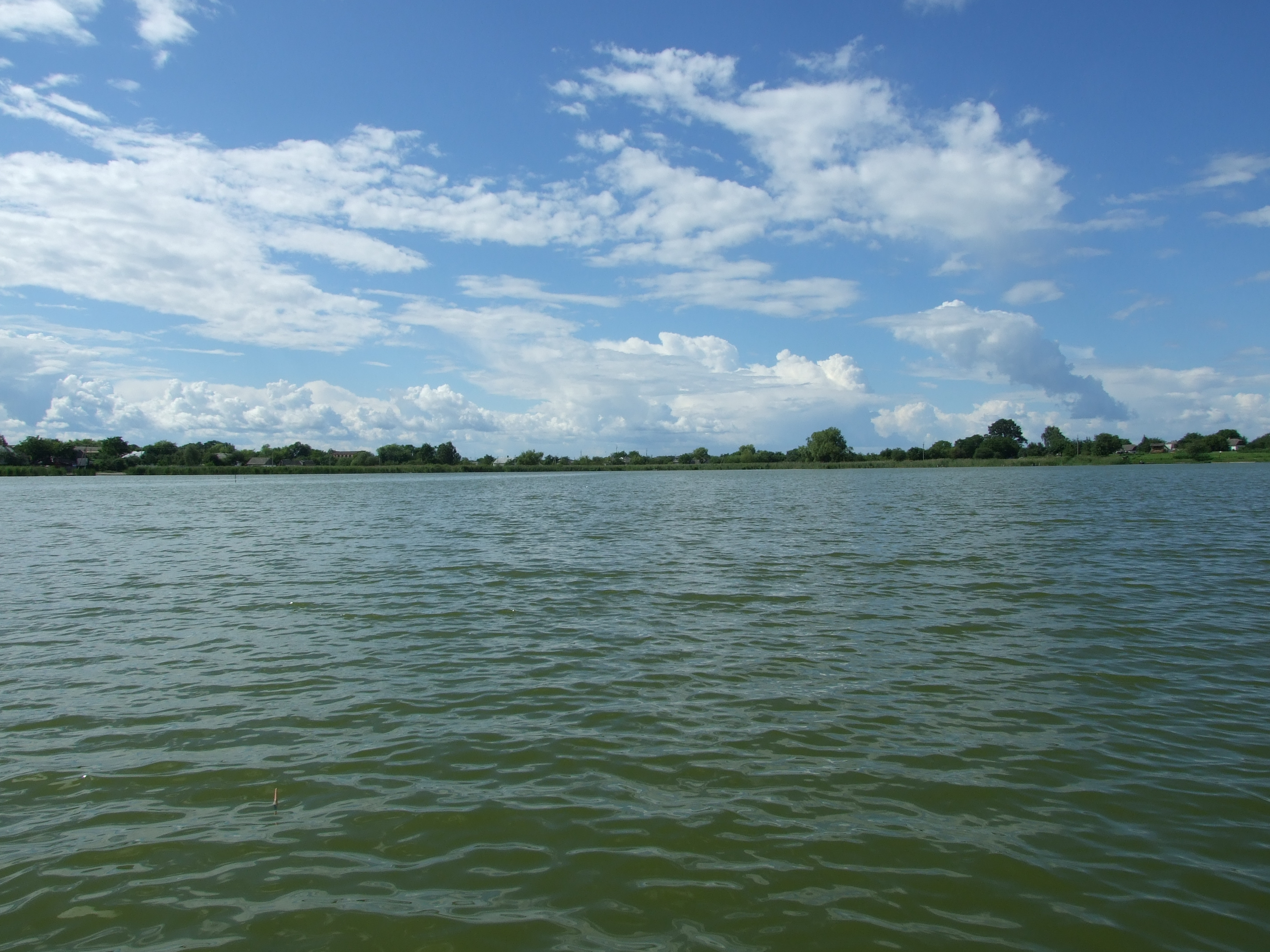 East bank of Lubytiw's lake (Lubytiw, Volyn, Ukrajina).